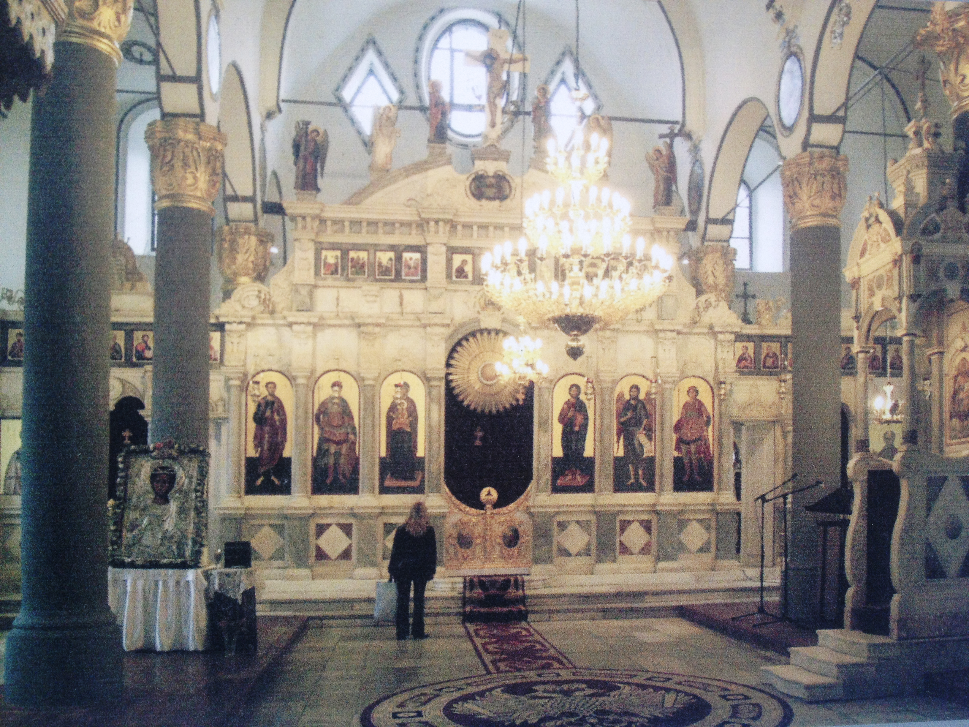 St. Demetrius church in Plovdiv, Bulgaria